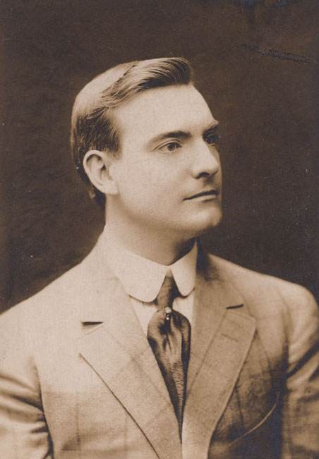 Photo of actor/singer George MacFarlane